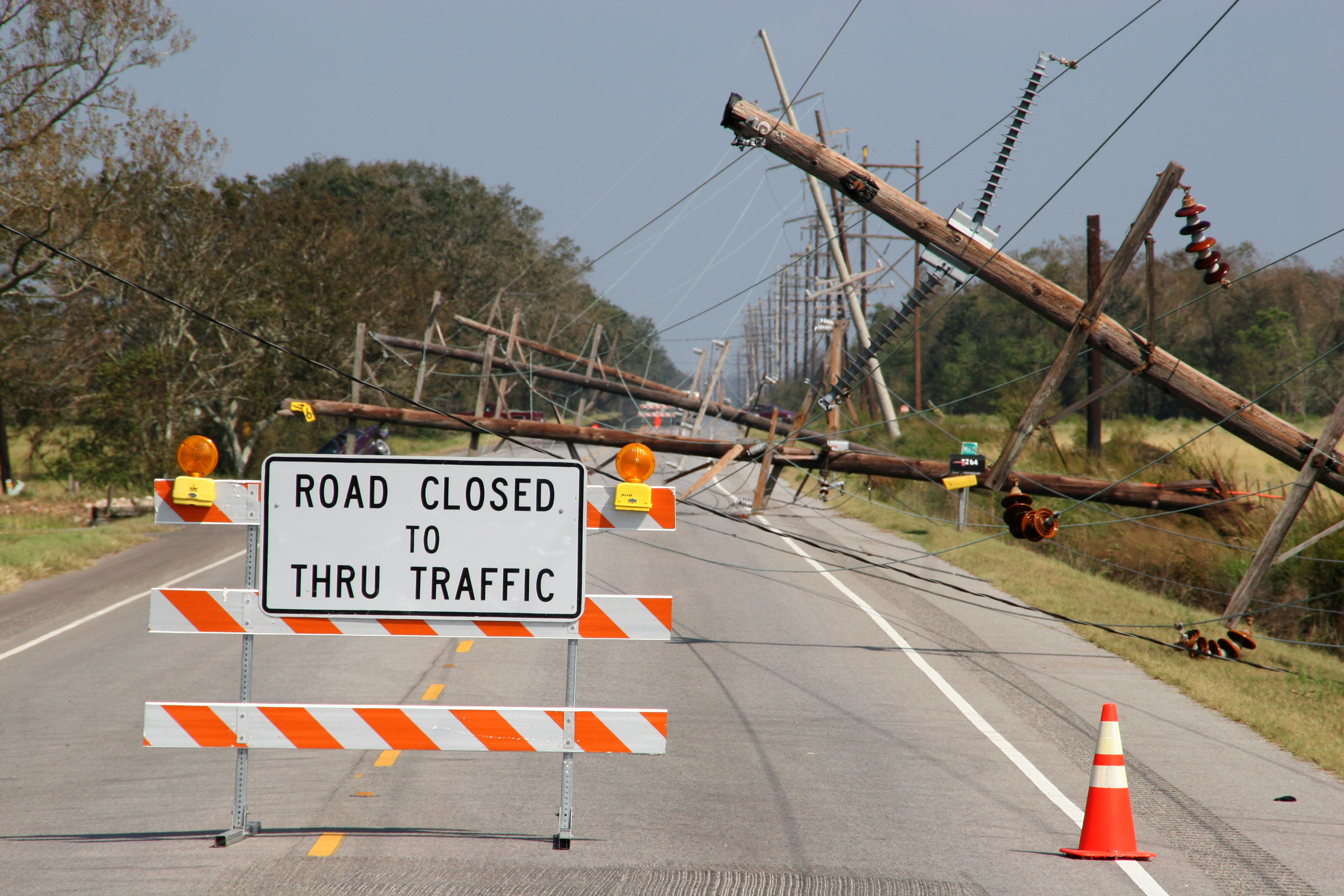 Lake Charles, LA, September 26, 2005 - Power lines and poles are blown across this road closing it to traffic. Hurricane Rita damage is wide spread throughout the city where power is expected to be out for weeks. Robert Kaufmann/FEMA